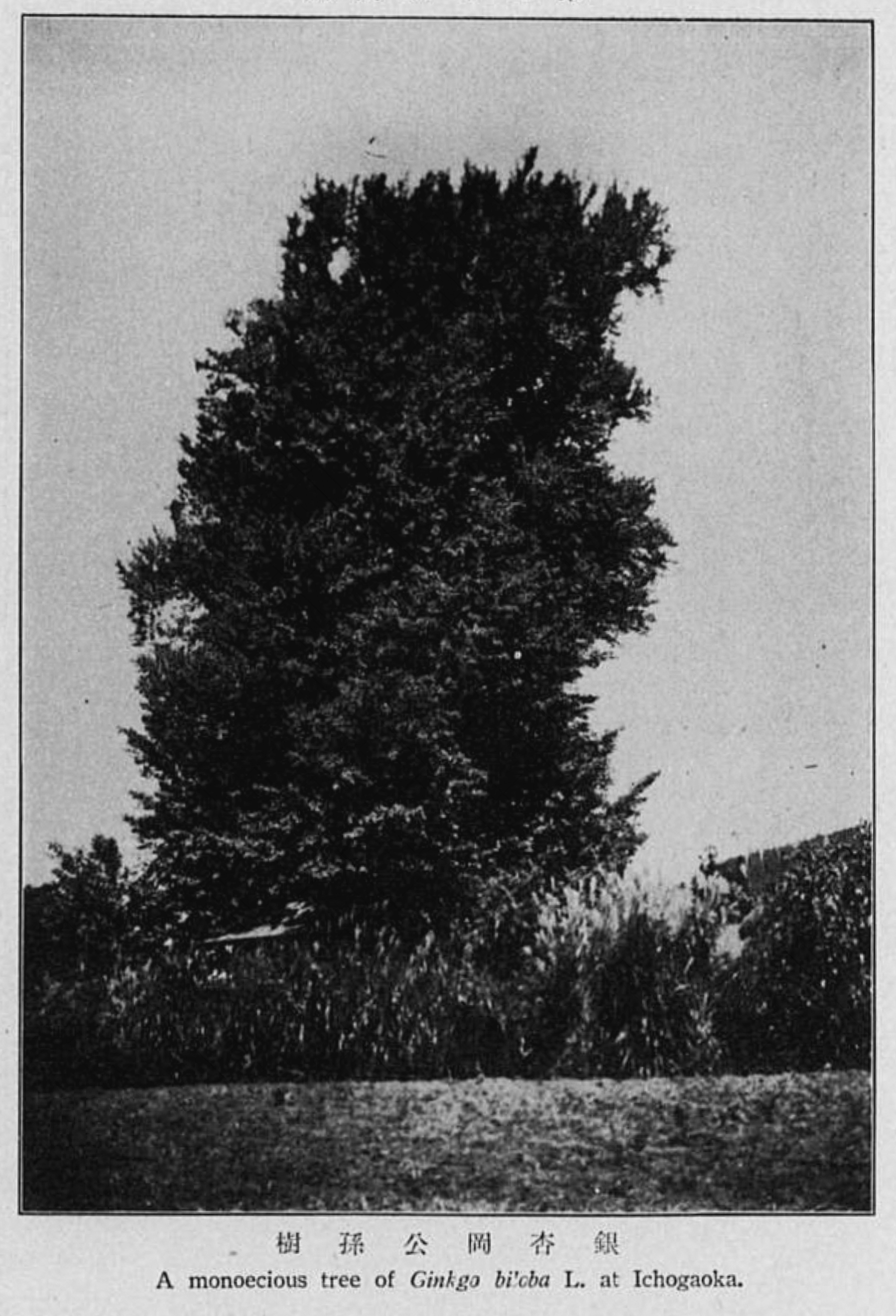 Ginkgo biloba at Ichogaoka, Hanamaki, Iwate prefecture, Japan.